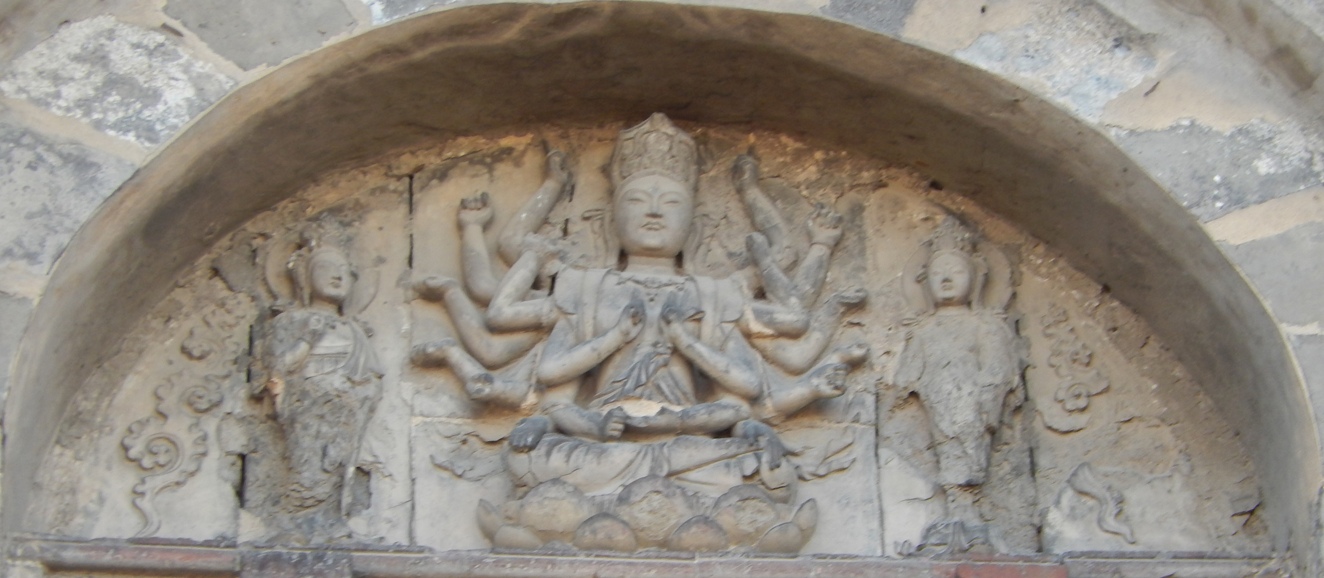 Detail of the panel on the north side of the Liao dynasty octagonal brick pagoda at Tianning Temple, Beijing. The detail shows the fourteen-armed form of the Bodhisattva Avalokiteśvara.